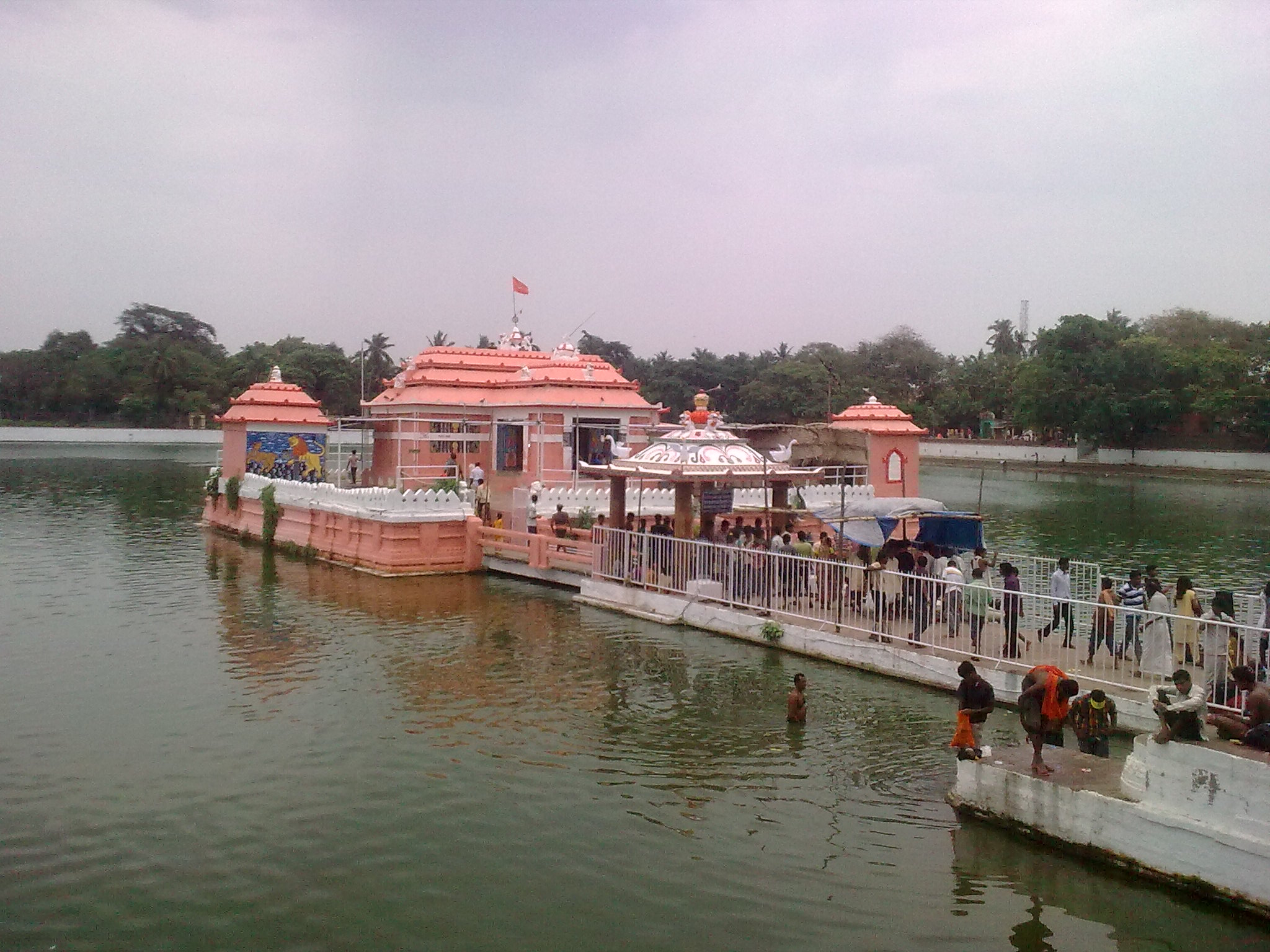 ଓଡ଼ିଆ: Narendra Pokhari One of the significant Ancient Pond of Holly city Puri